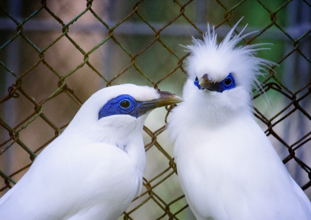 Two Bali Starlings in captivity.